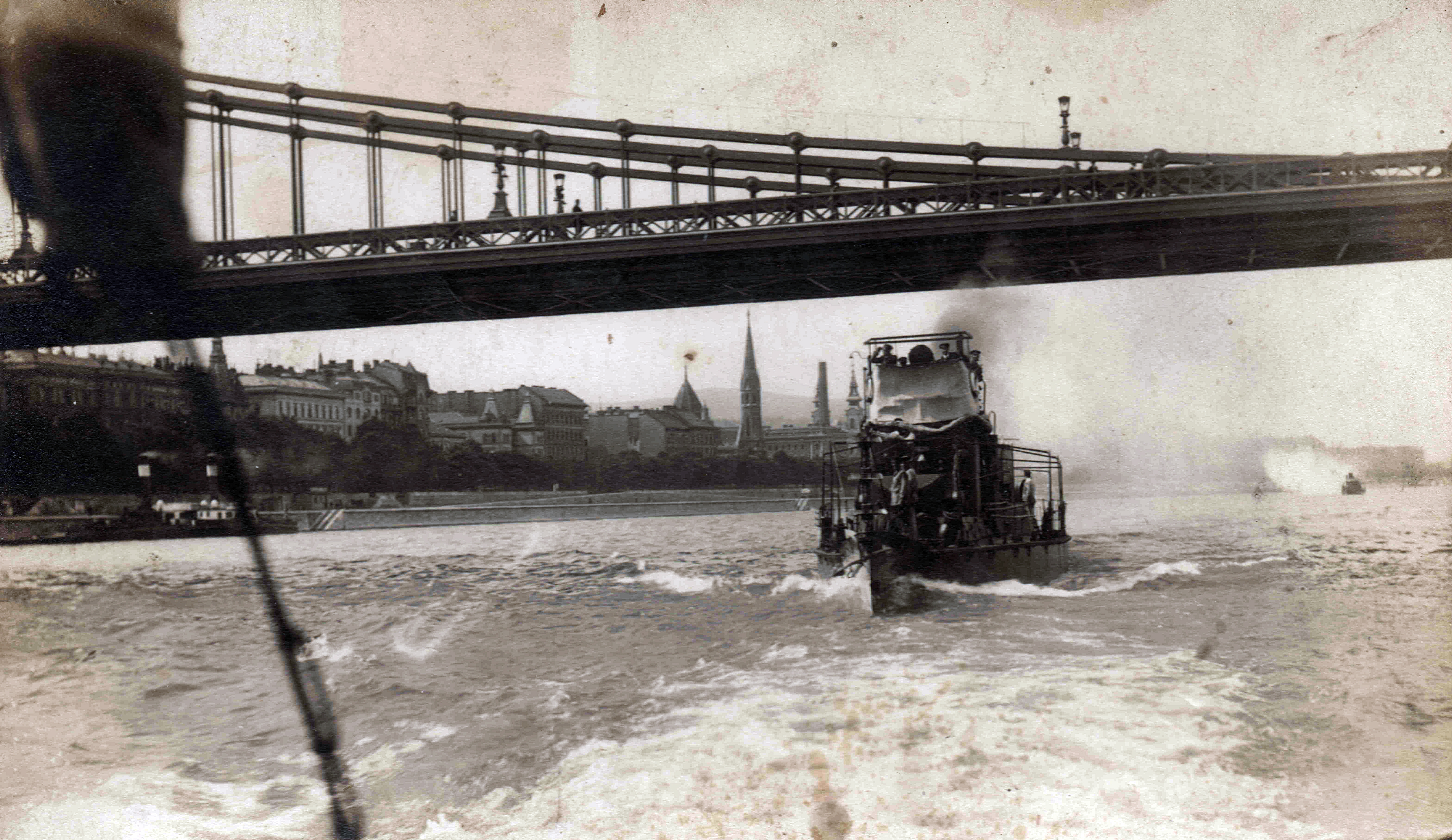 Wels-class river patrol boat sails under the Chain Bridge in Budapest Location: Hungary, Budapest I. Tags: Budapest, Danube, suspension bridge, William Tierney Clark-design Title: a Magyar Királyi Folyamőrség őrnaszádjai a Lánchídnál, háttérben a Bem (Margit) rakpart.